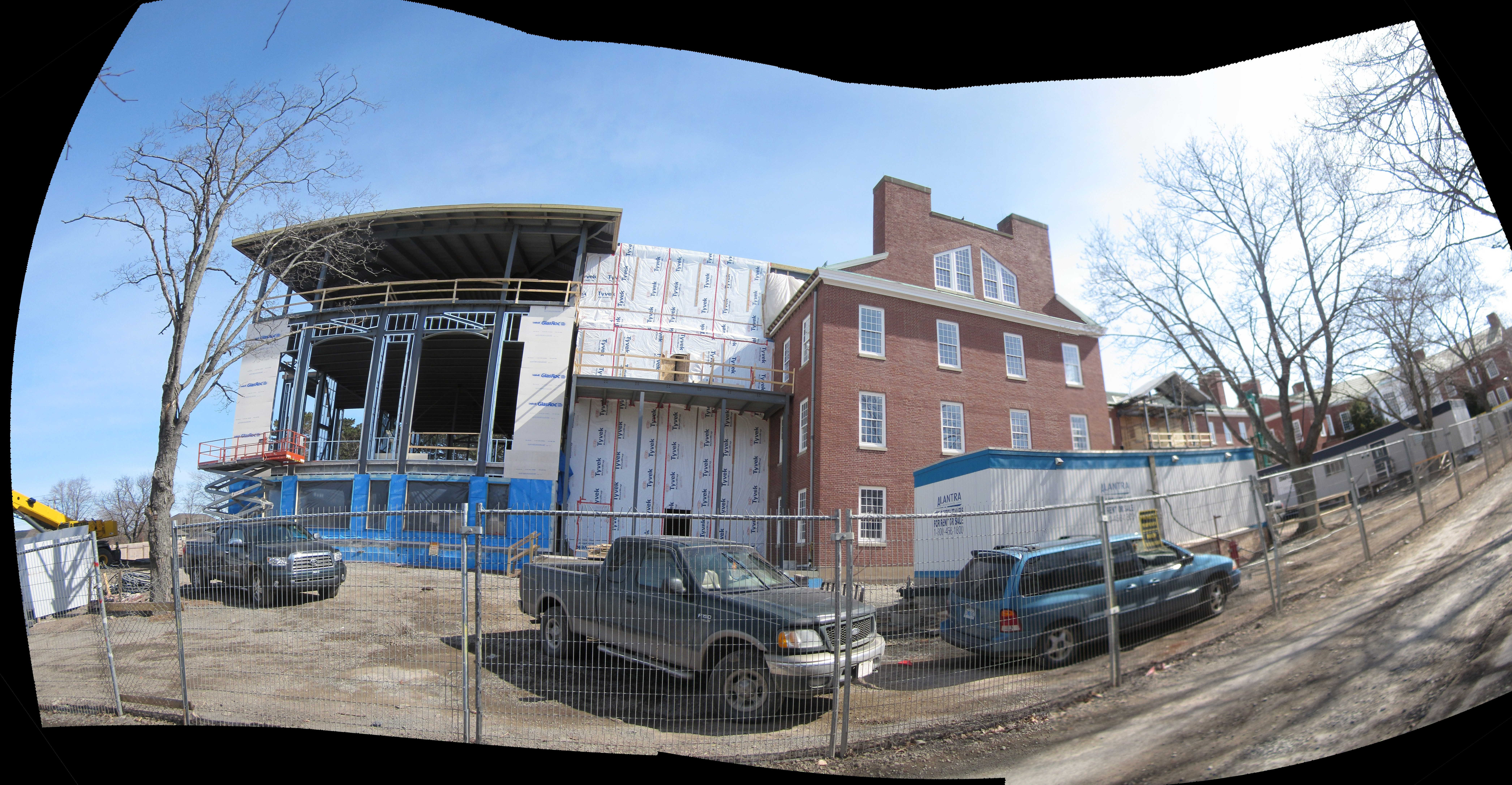 Schwartz School of Business Construction site on March 19th, 2010.